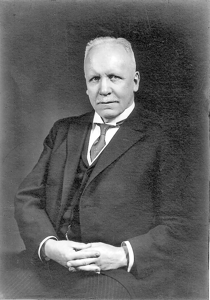 Dr. Jur. Senator Julius Vermehren (1855-1928)